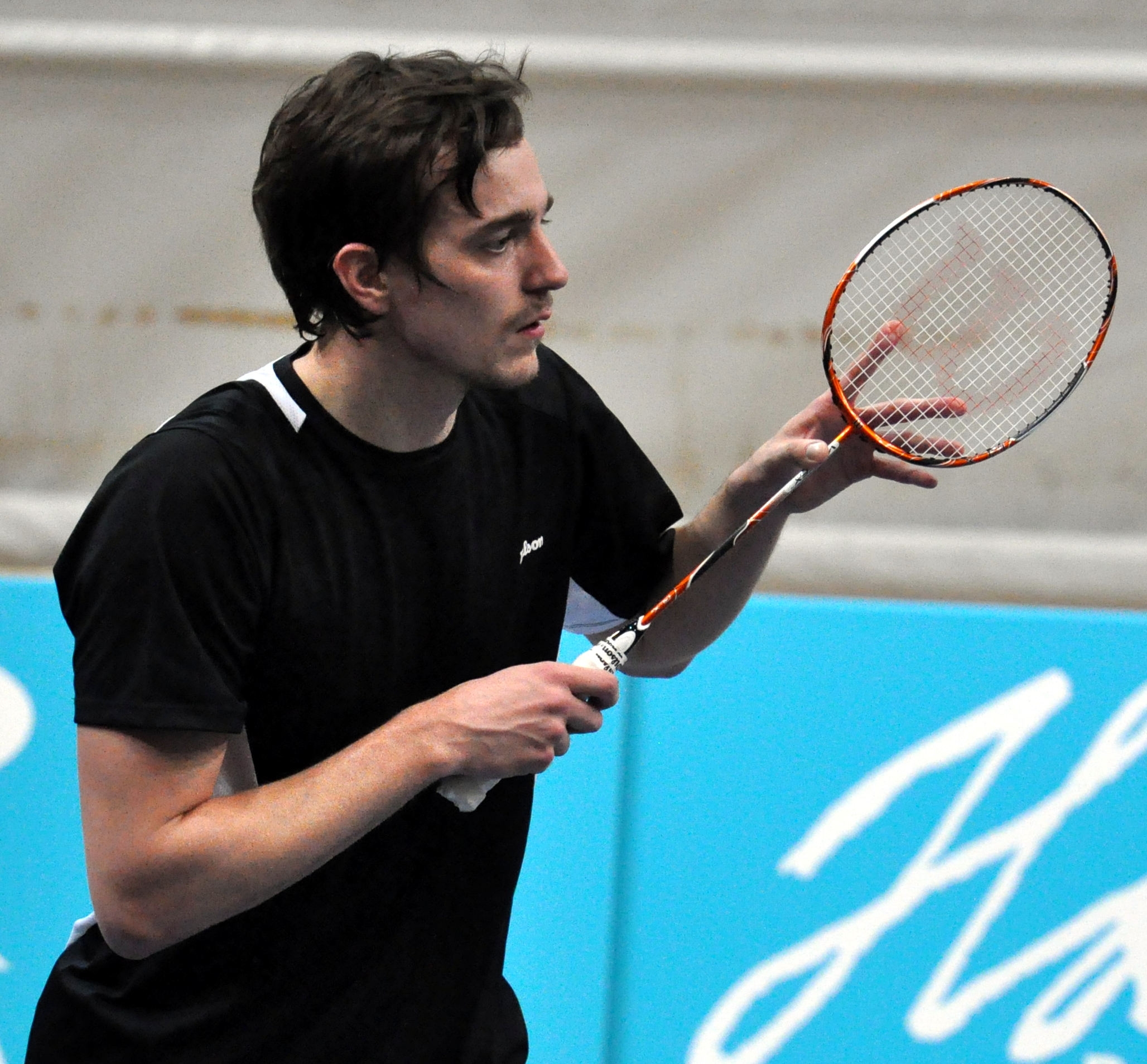 Eetu Heino is a male badminton player from Finland.